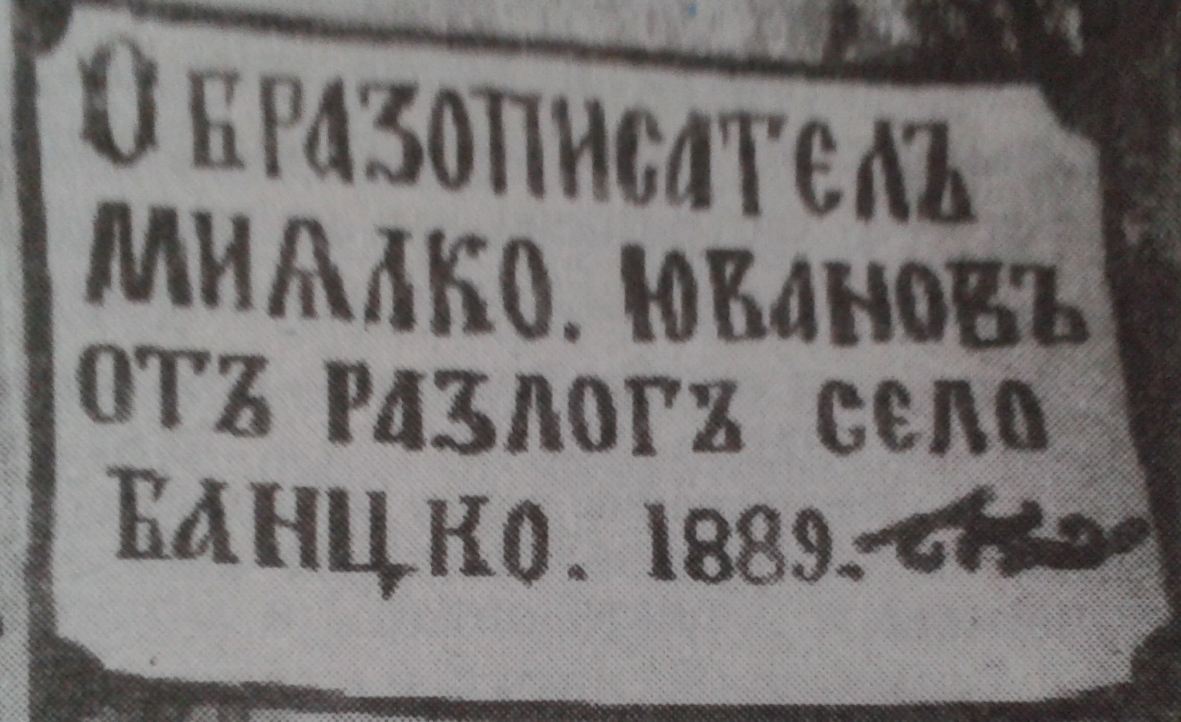 Mihalko Golev's Signature in St Archangel Michael Church in Leshko, Bulgaria